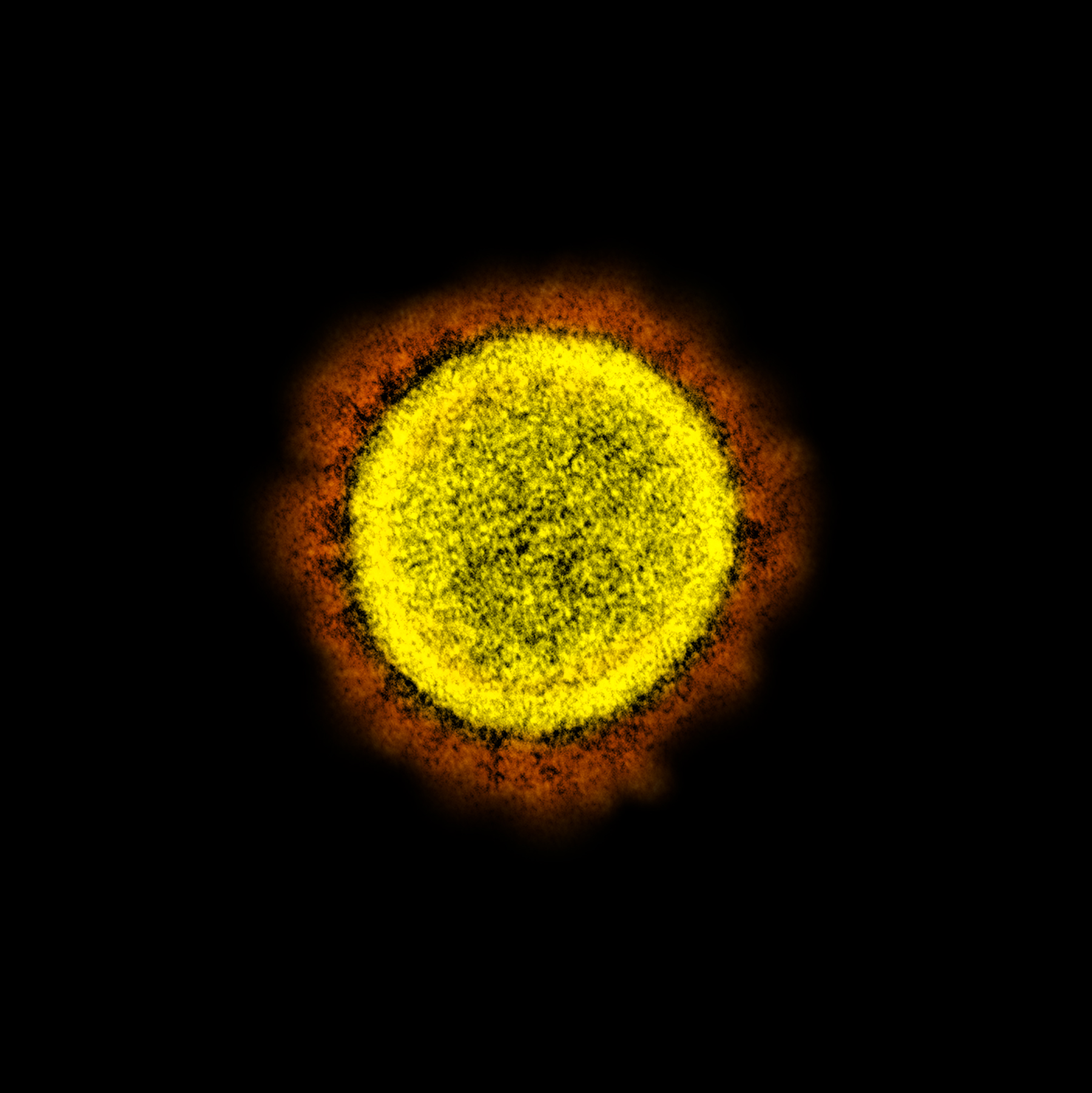 Novel Coronavirus SARS-CoV-2 Transmission electron micrograph of SARS-CoV-2 virus particles, isolated from a patient. Image captured and color-enhanced at the NIAID Integrated Research Facility (IRF) in Fort Detrick, Maryland. Credit: NIAID